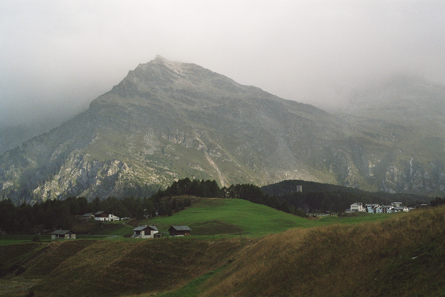 Origin river of Inn at right side of picture, below parts of Maloja.